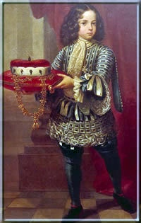 Hieronymus von Spreti (1695-1772) als bayerischer Page